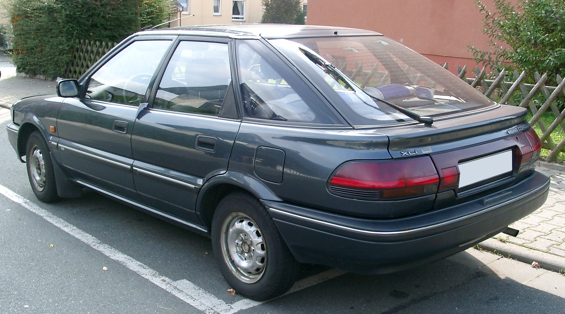 Toyota Corolla XLi liftback